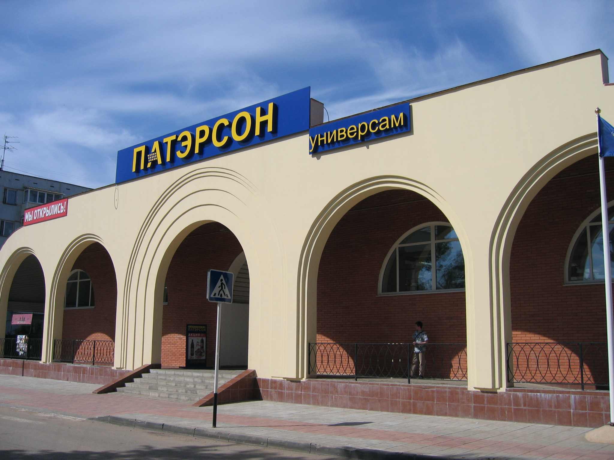 Paterson supermarket in Zvenigorod, Moscow Oblast